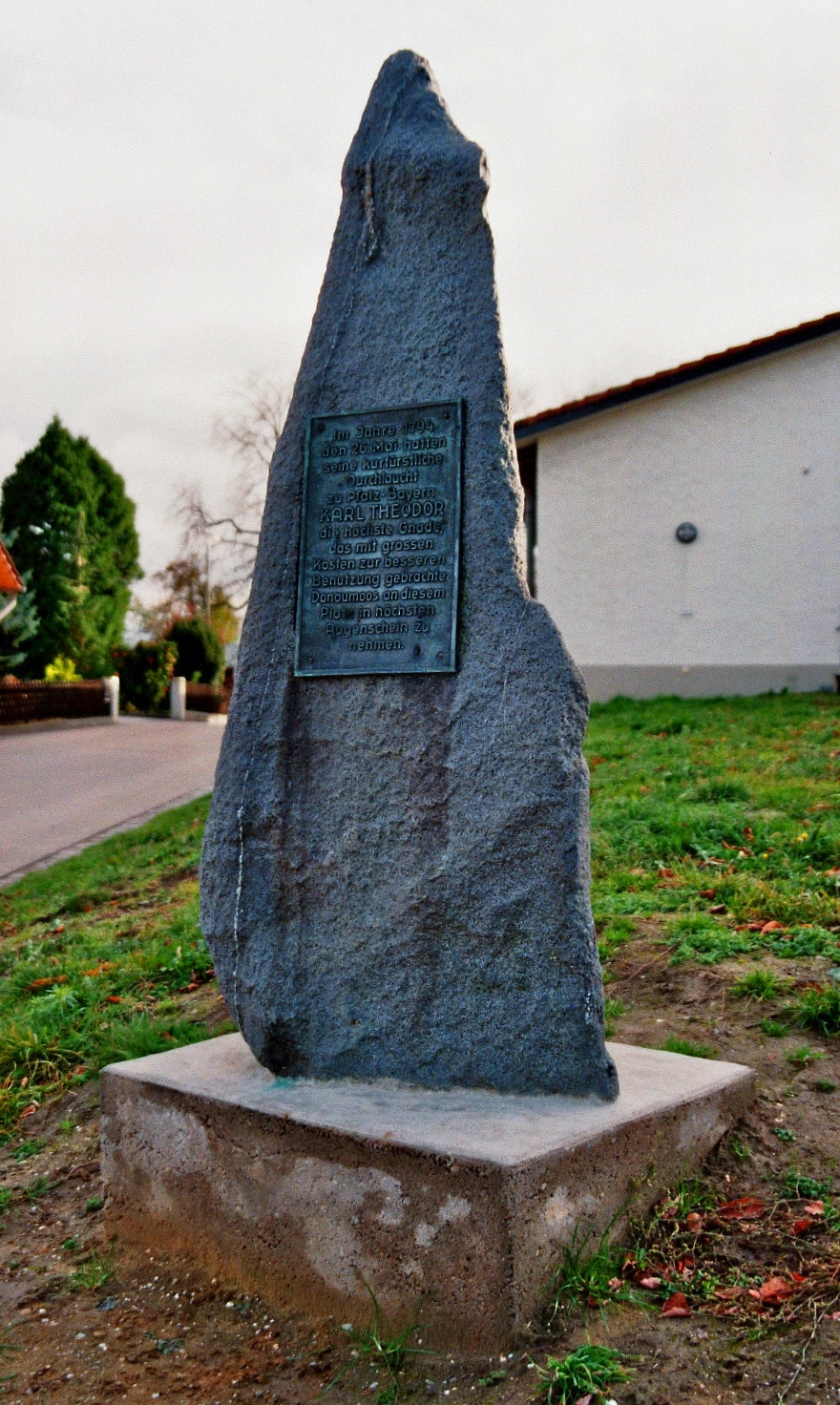 Donaumoos Memorial (Donaumoos-Denkmal) in Berg im Gau, District Neuburg-Schrobenhausen, Bavaria, Germany.